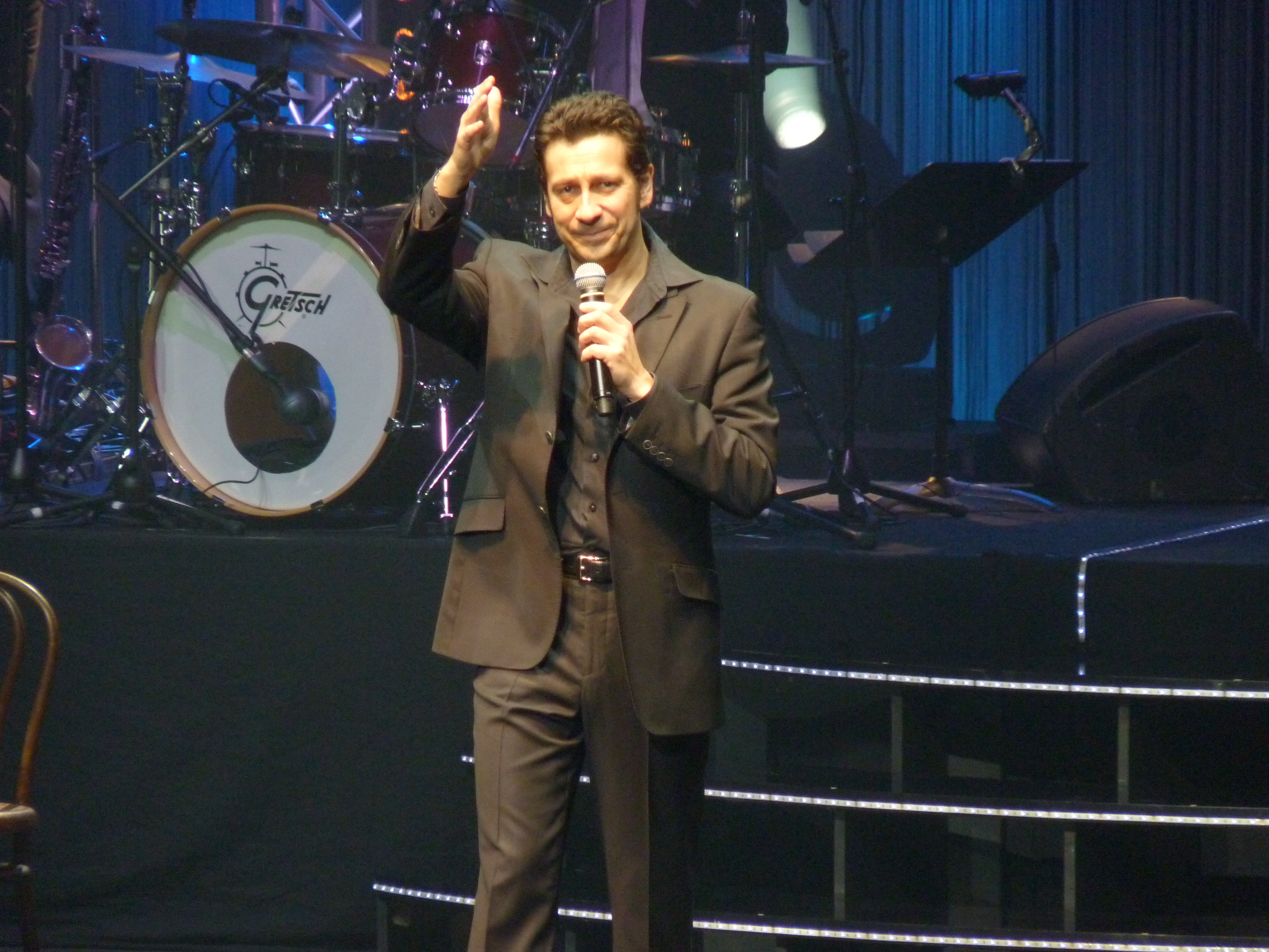 Laurent Gerra is performing in Nice.